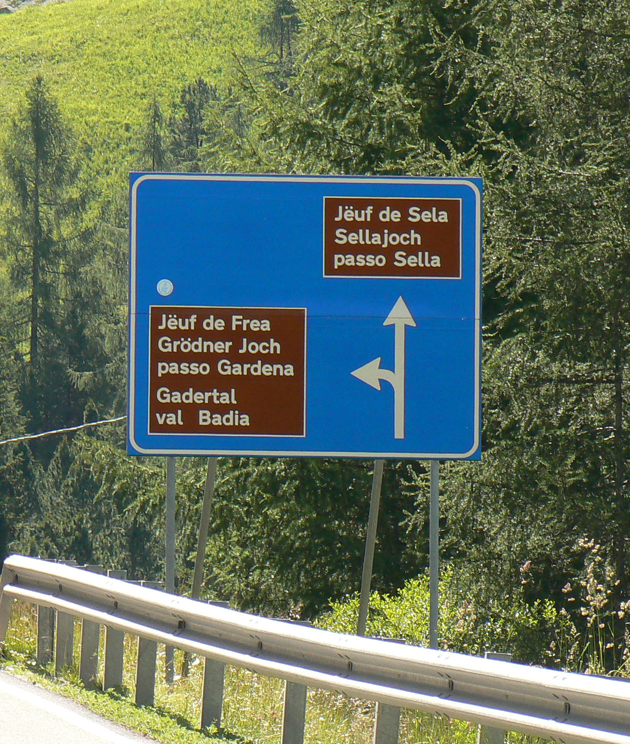 Trilingual road sign in Val Gardena, South Tyrol with Ladino, German and Italian.